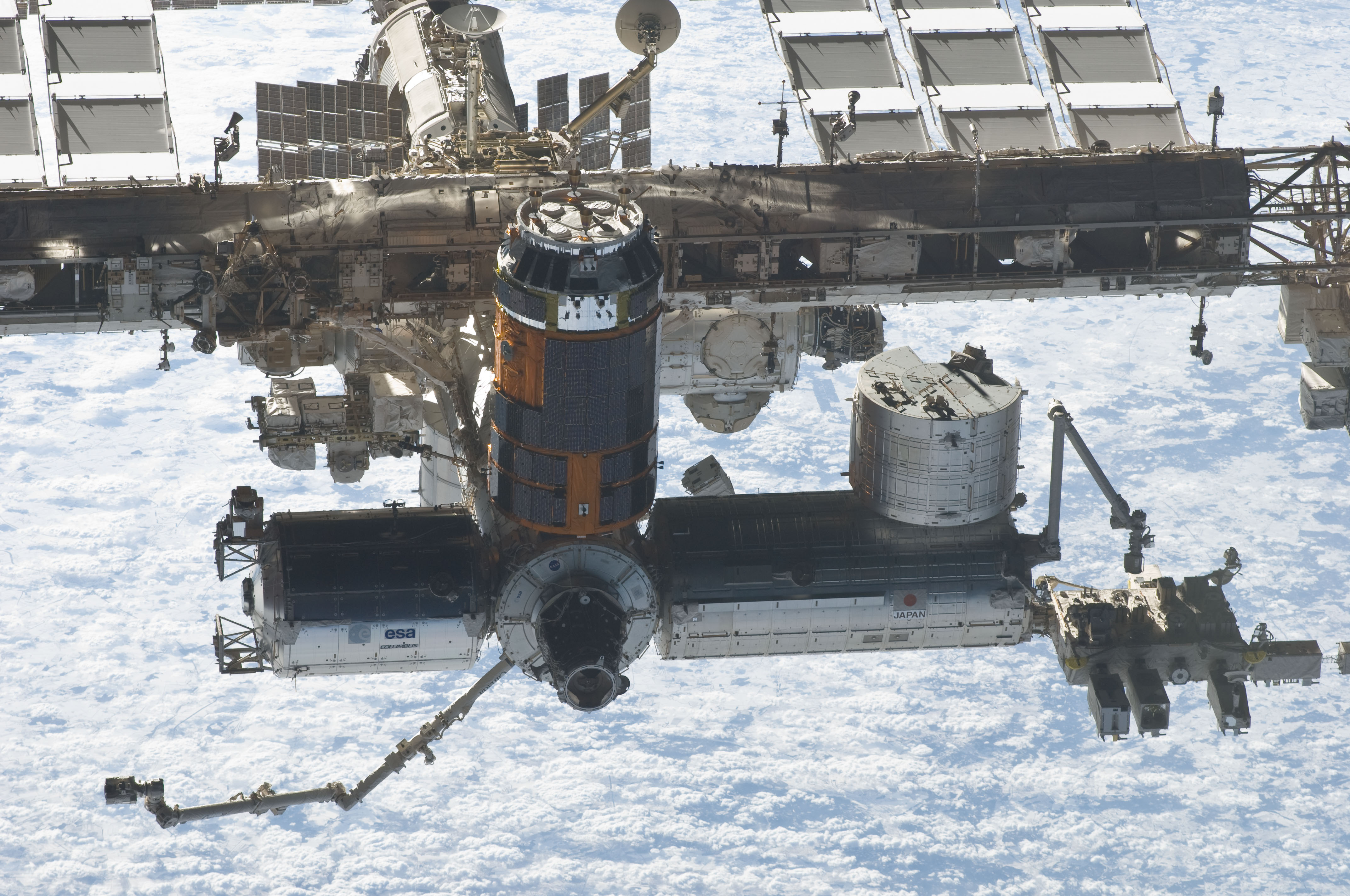 A close-up view of the International Space Station is featured in this image photographed by an STS-133 crew member on space shuttle Discovery after the station and shuttle began their post-undocking relative separation. Undocking of the two spacecraft occurred at 7 a.m. (EST) on March 7, 2011. Discovery spent eight days, 16 hours, and 46 minutes attached to the orbiting laboratory.